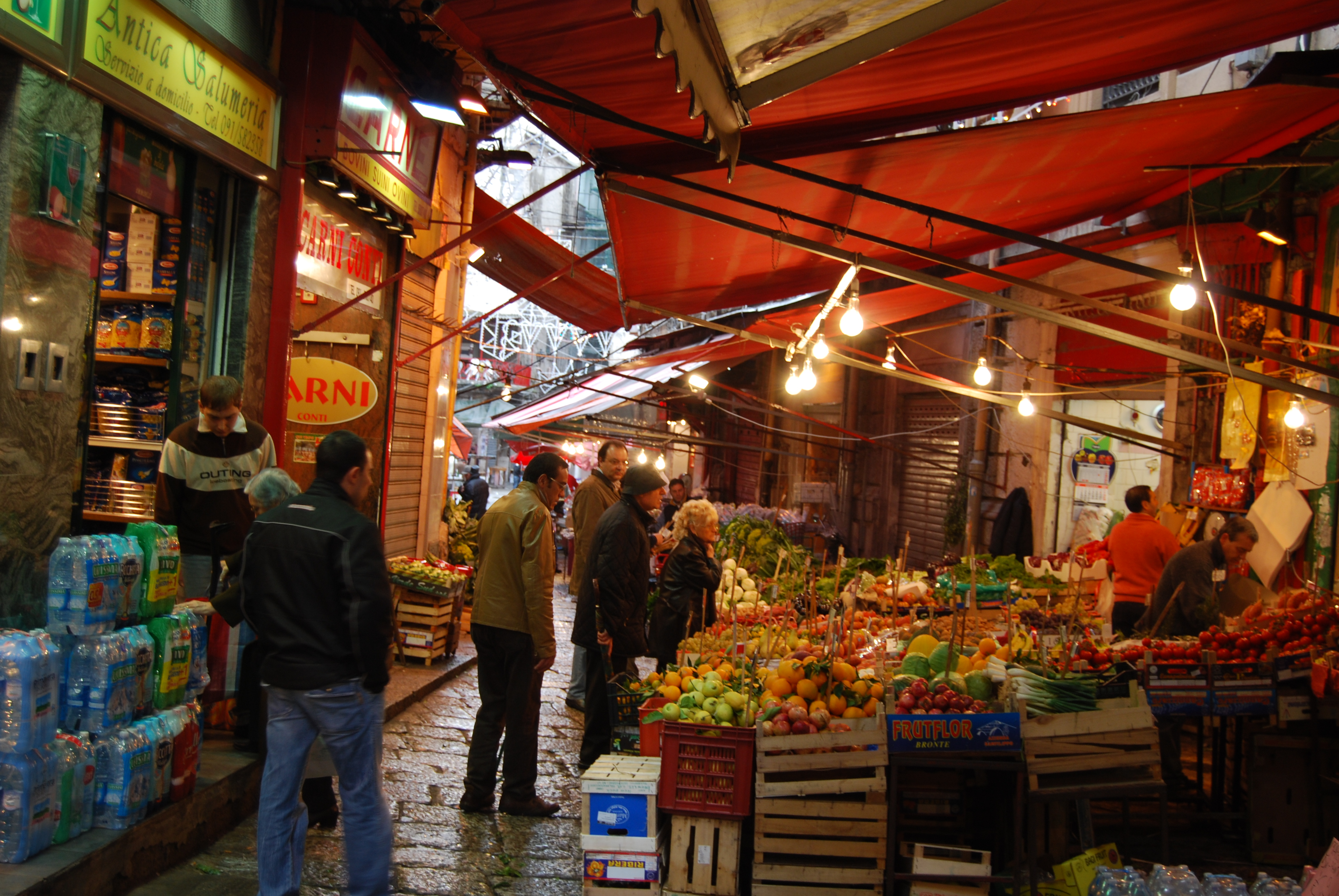 Market in Palermo, Italy